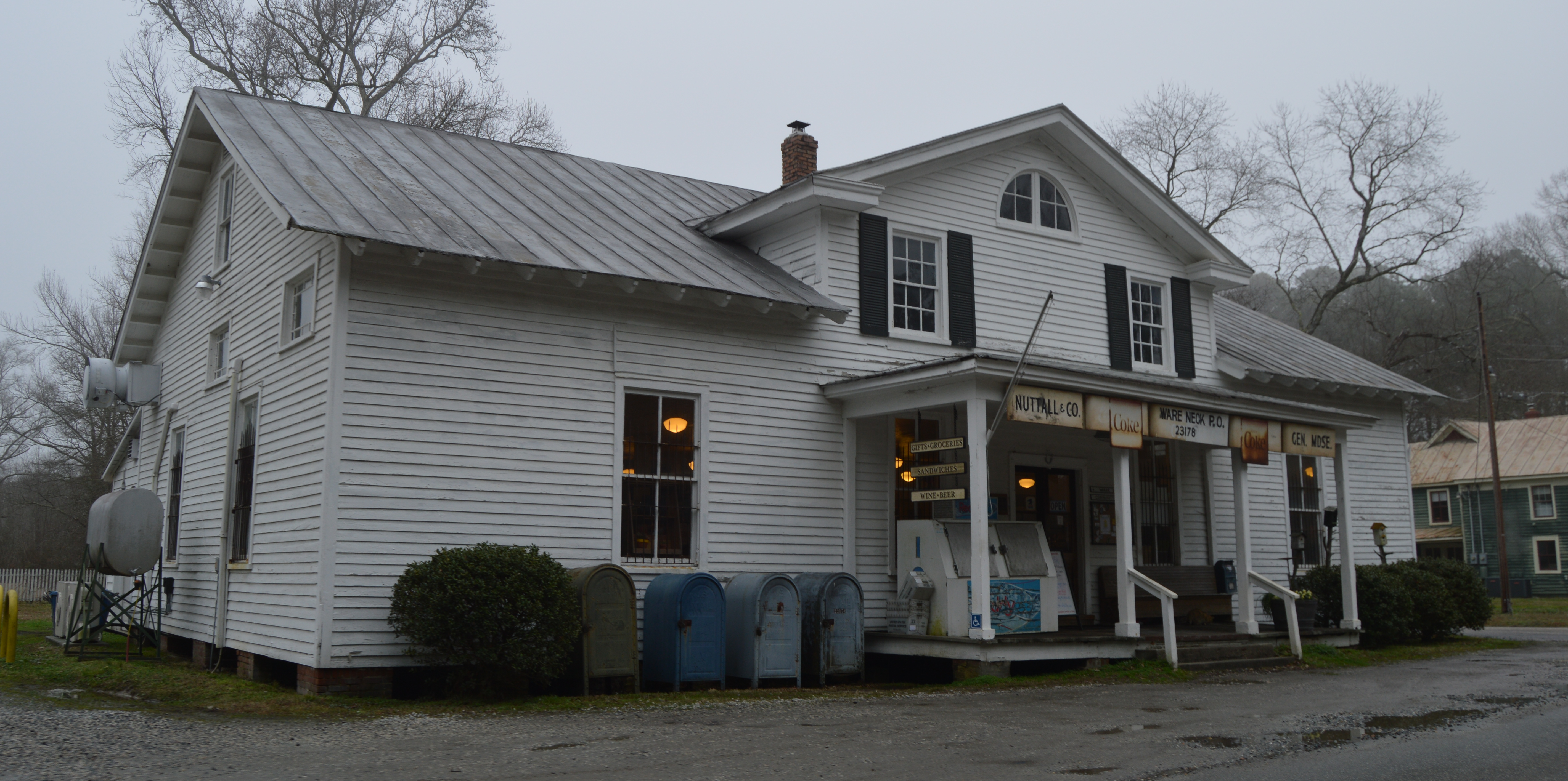 Front and western end of the Ware Neck Store and Post Office, a community post office located at the junction of Hockley Wharf and Ware Neck Roads (the crossroads of Ware Neck) in Gloucester County, Virginia, United States. Built in 1877, it is listed on the National Register of Historic Places.